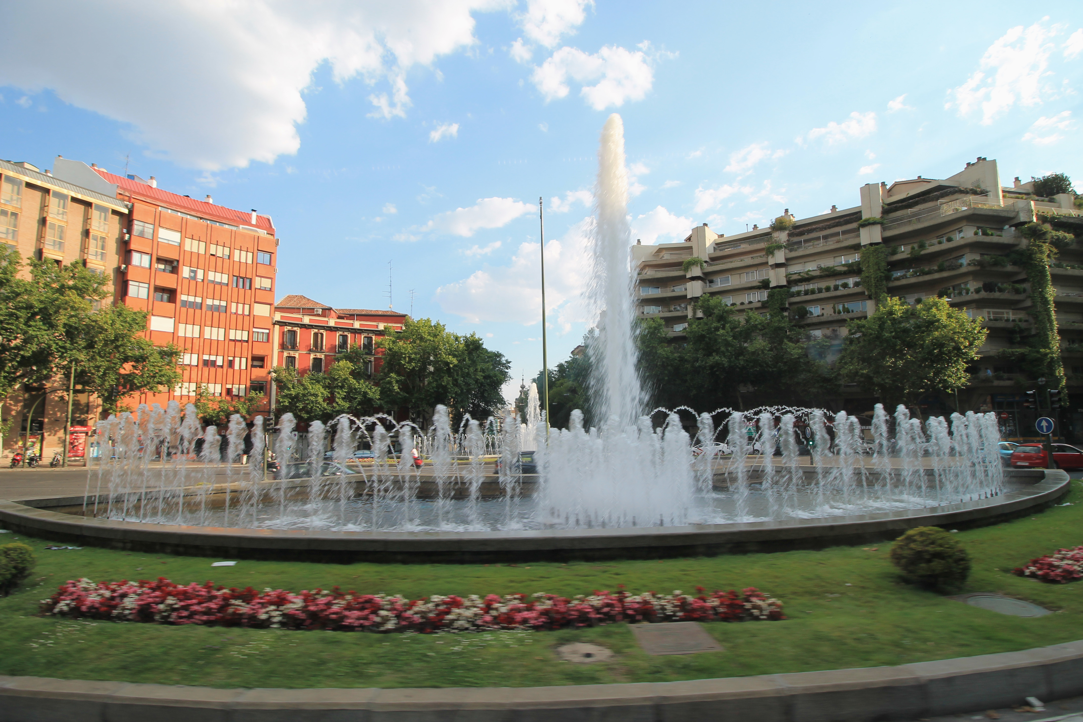 View from Glorieta de Ruiz Jiménez (a square) in Madrid (Spain).